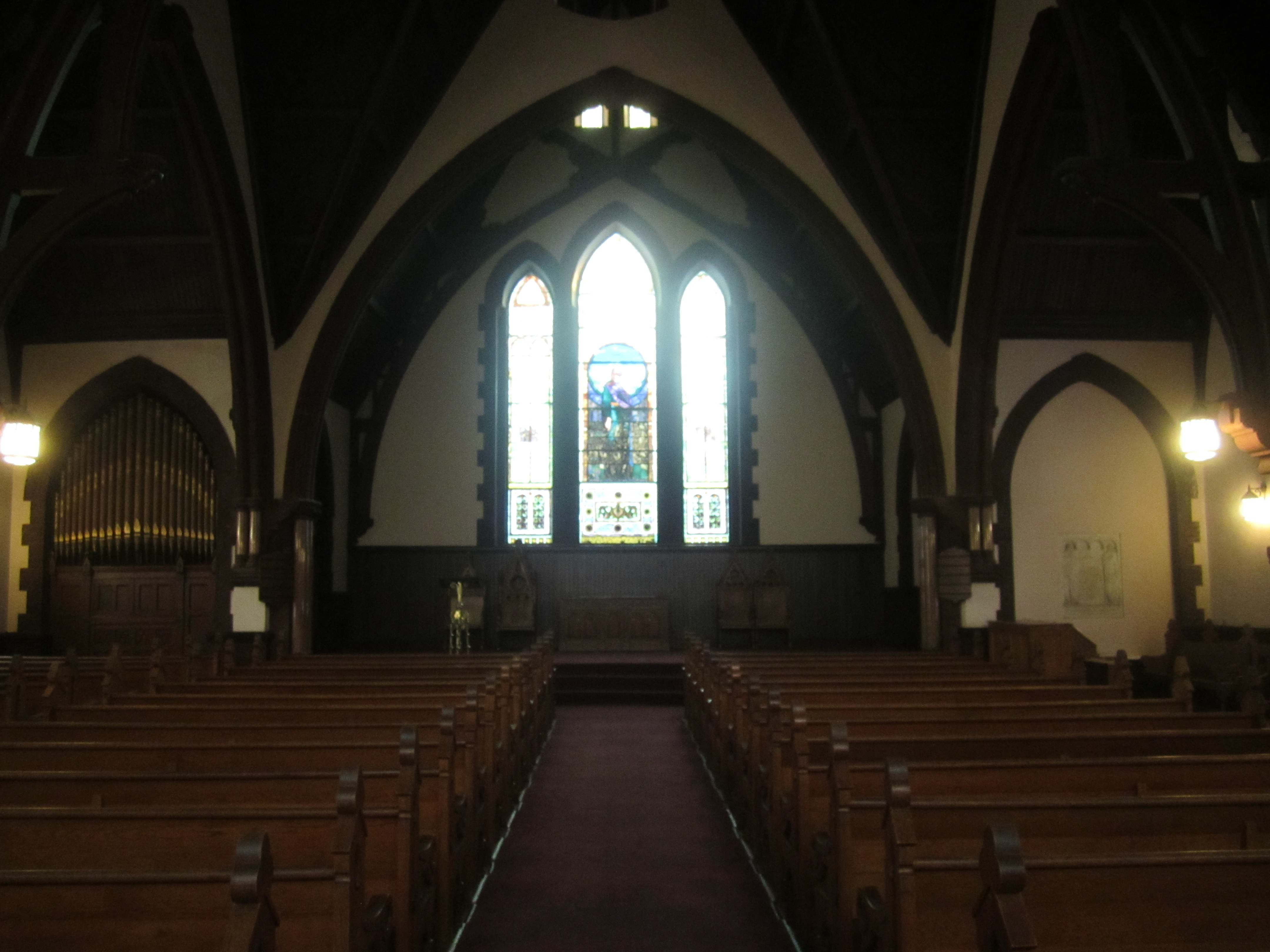 I took photo of inside the chapel at the Univ. of VA in Charlottesville, with a Canon camera.